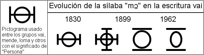 Graphic evolution in vai script (begins of 19th century) from a old local pre-syllabic pictogram for "Person" concept into modern "Mọ" syllabic fonetic value.